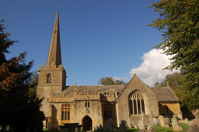 St Michael and All Angels parish church, Stanton, Gloucestershire, seen from the south